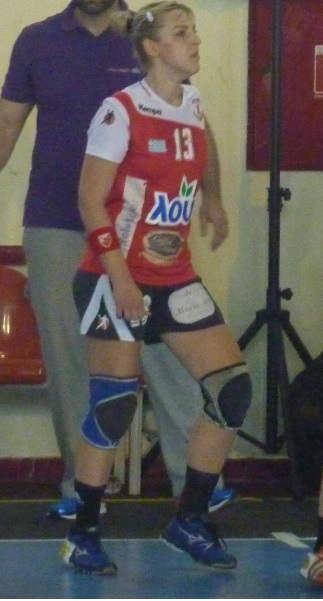 Greek hanball player Apostolina Dimitriou.